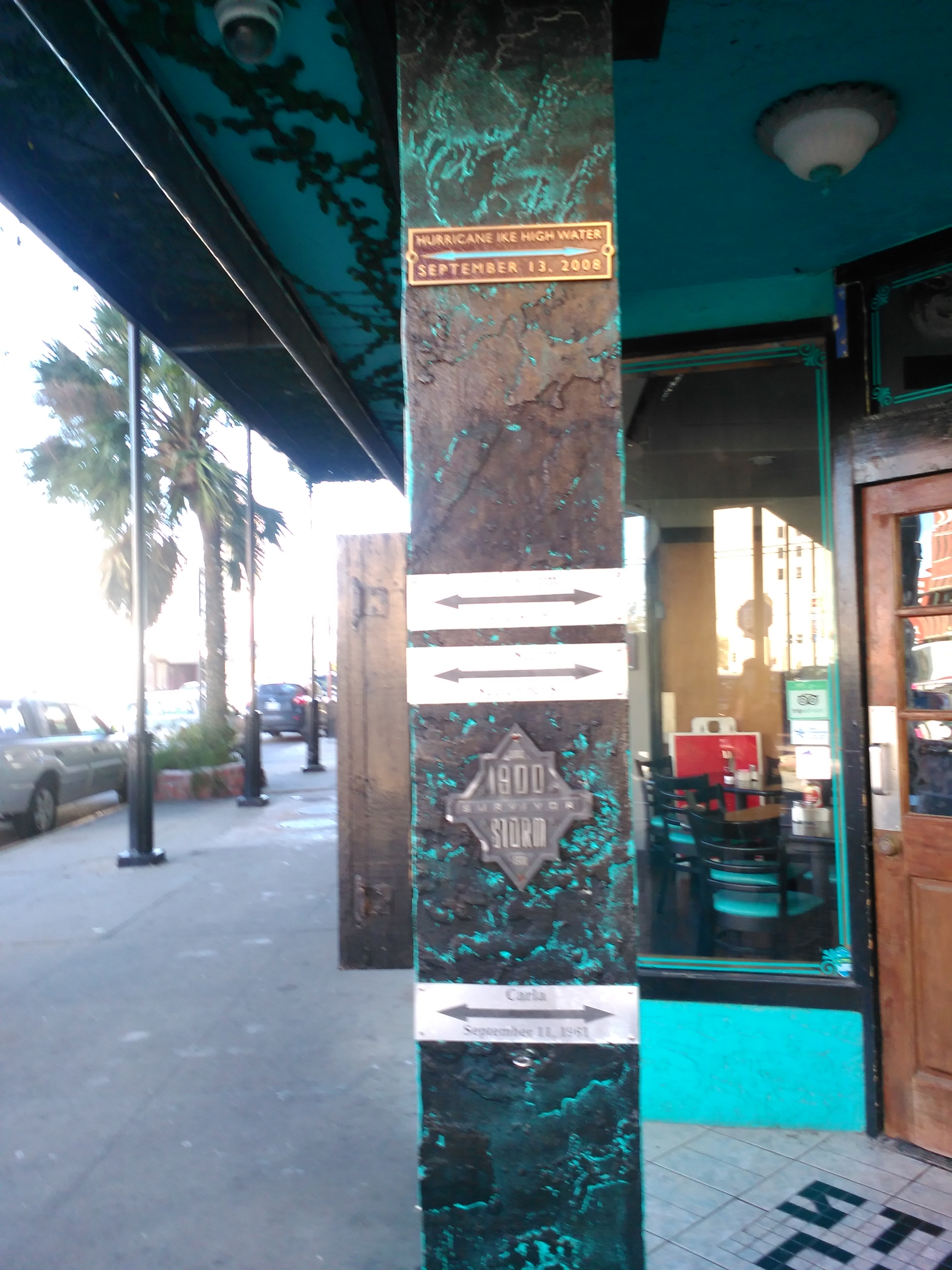 Marker showing water levels of various storms in Galveston